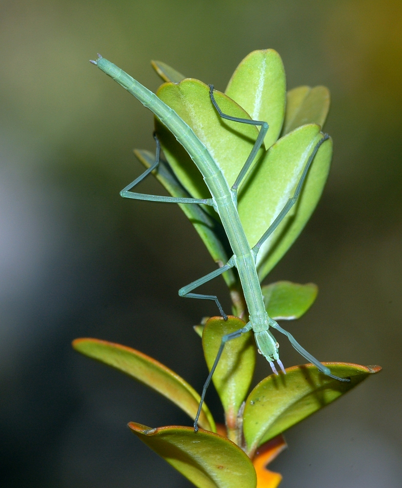 Spanish Walking Stick (Leptynia hispanica), Le Caylar, Languedoc-Roussillon, France